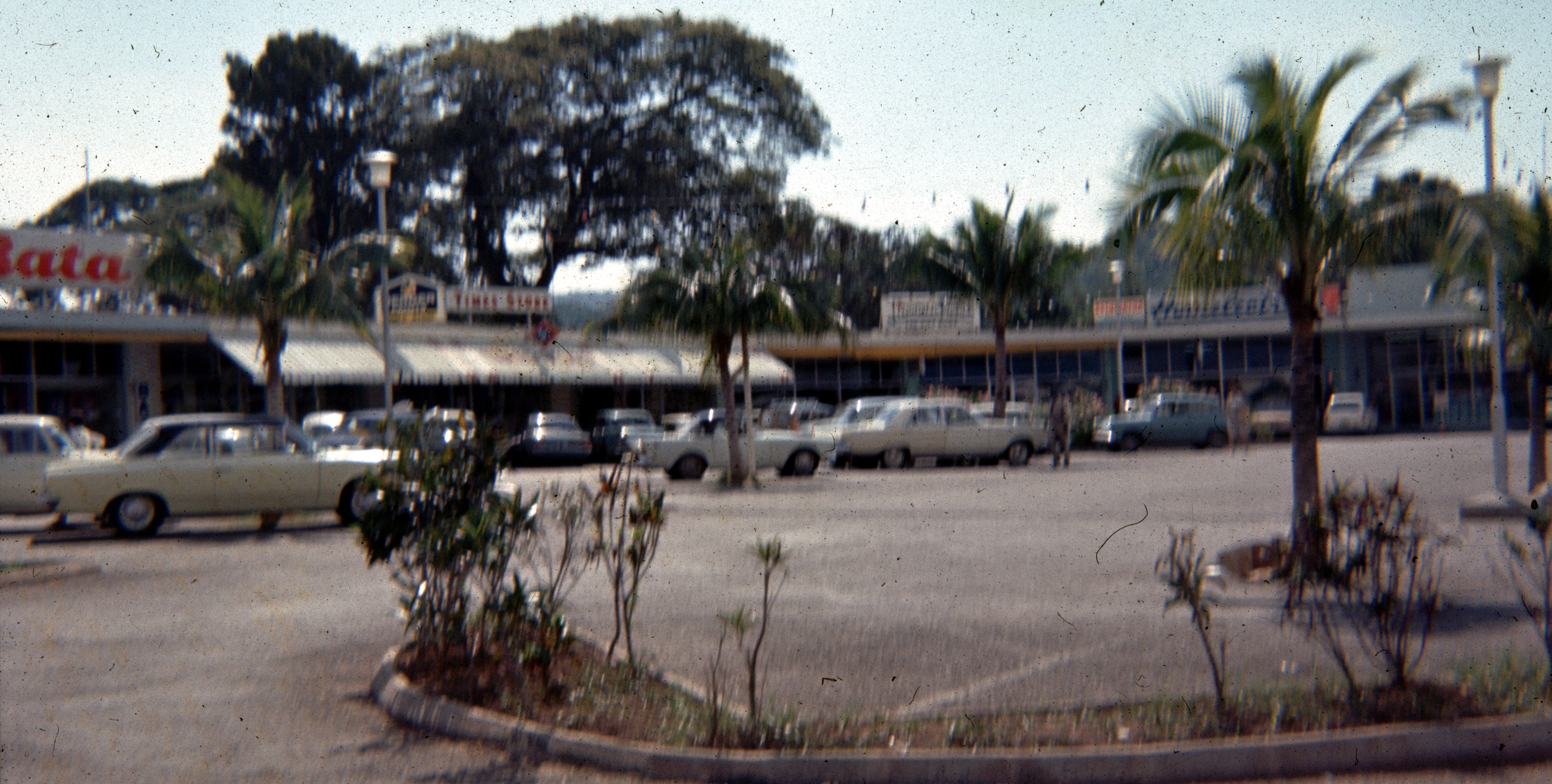 Ligunea Plaza, Kingston, Jamaica.